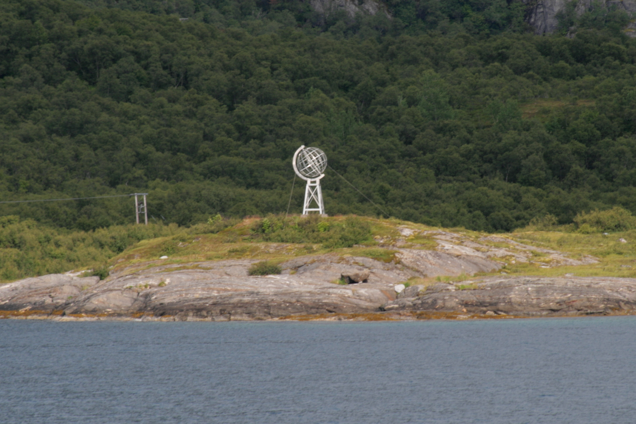 This is a landmark designating the Arctic Circle, viewed from a ferry crossing Melfjorden.